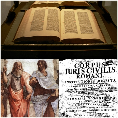 Transwiki approved by: User:Ragesoss This image was copied from en. The original description was: Picture of an original Gutenburg Bible in the Beinecke Rare Book and Manuscript Library at Yale University. Picture taken by Henry Trotter in 2005. The author releases the picture to the public domain. Symbolic meaning: Representación gráfica de los tres pilares básicos sobre los que se asienta el entramado cultural europeo: la Sagrada Escritura, la filosofía de la Antigua Grecia y la compilación de Justiniano I. (Graphical representation of the three pillars on which rests the European cultural framework: Sacred Scripture, philosophy of ancient Greece and the compilation of Justinian I.) ==